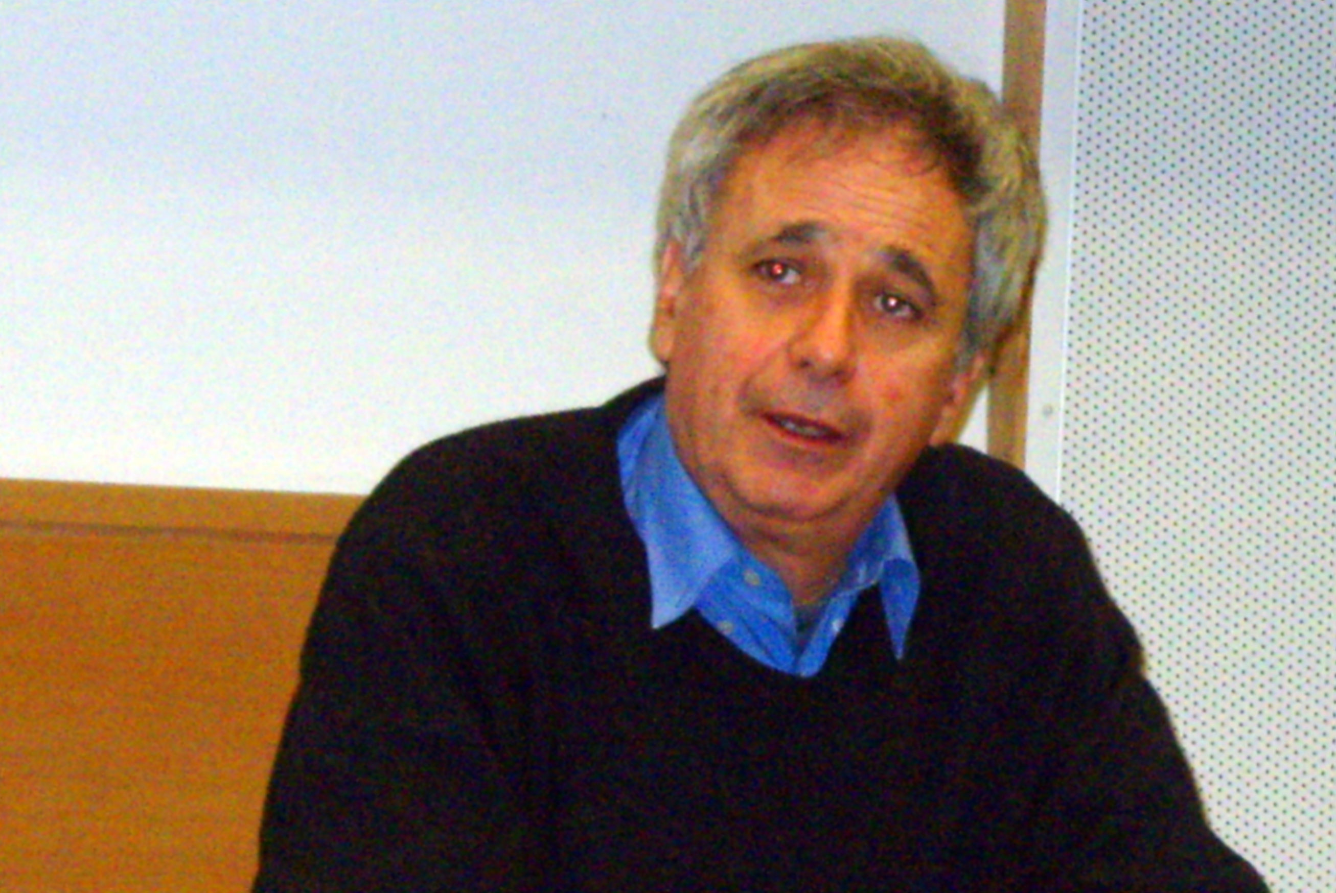 photo of Dr. Ilan Pappé taken with his permission during a lecture in Manchester Metropolitan University, UK. 17 January 2008